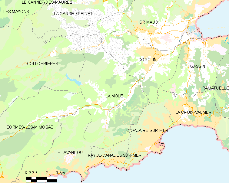 Map of French municipality La Môle